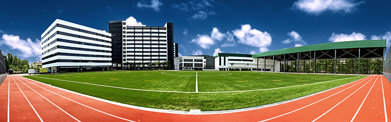 Overseas Family School Campus